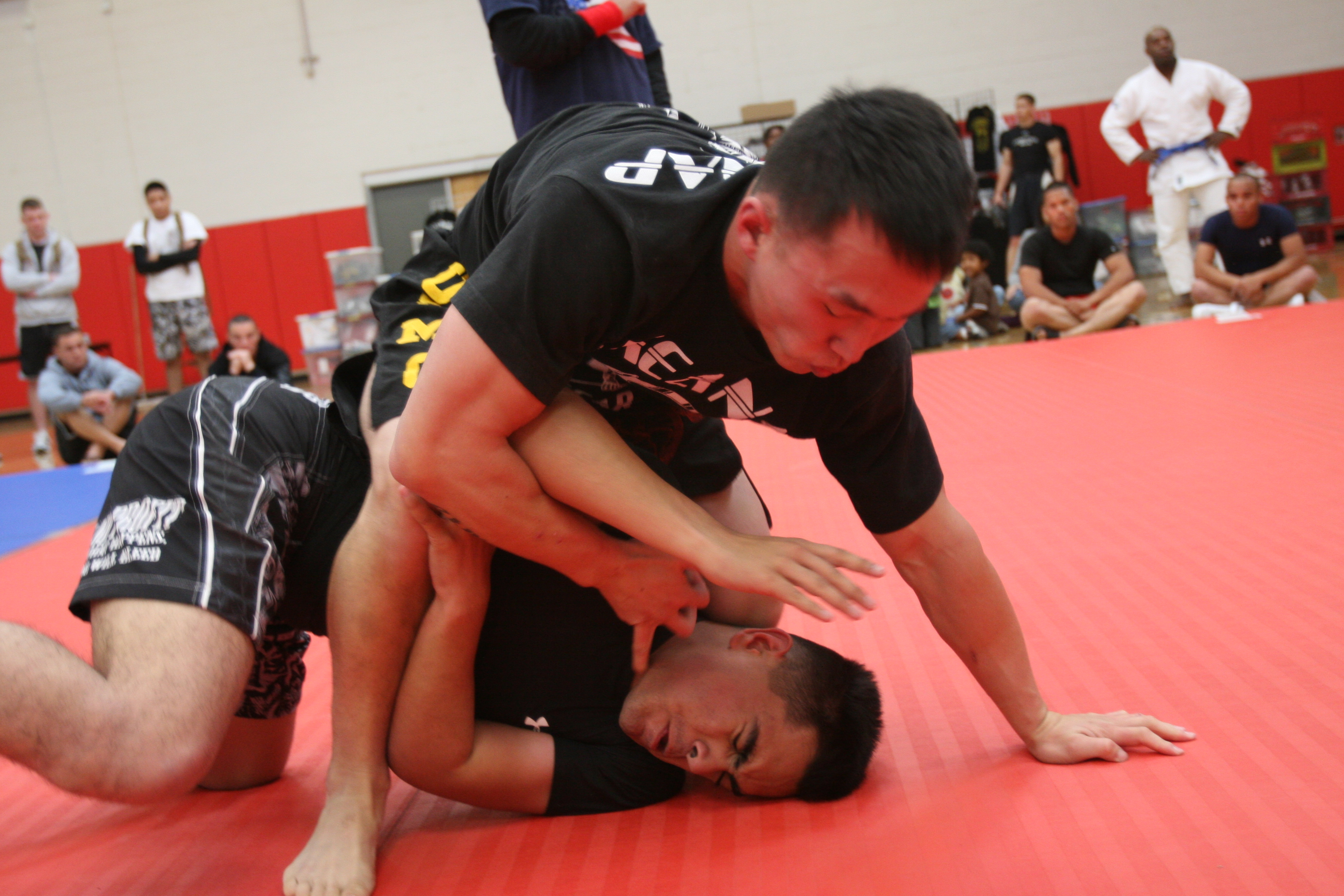 Cpl. Alex Lee, a driver with Headquarters and Headquarters Squadron aboard Marine Corps Air Station Camp Pendleton, gets the upper hand on Lance Cpl. George Ramirez, a system administrator with Marine Air Support Squadron 3, during the submission grappling tournament aboard MCAS Miramar, Calif., Jan. 22. Participants grappled based on weight and skill level.